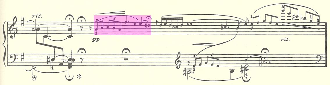 Cadence from Robert Schumann's Kinderszenen, Op. 15, No. 13, "Der Dichter spricht"